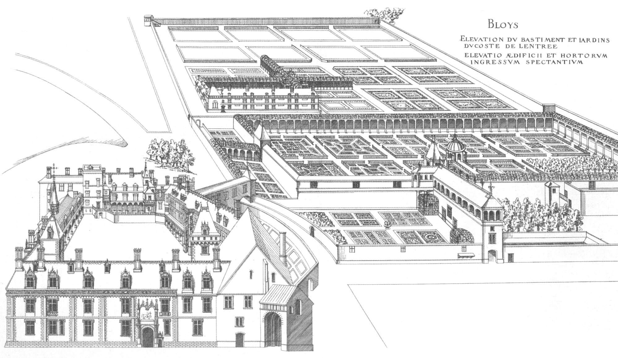 Le Château de Blois in Loir-et-Cher, engraving, 16th century